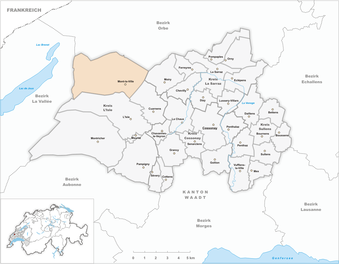 Municipality Mont-la-Ville